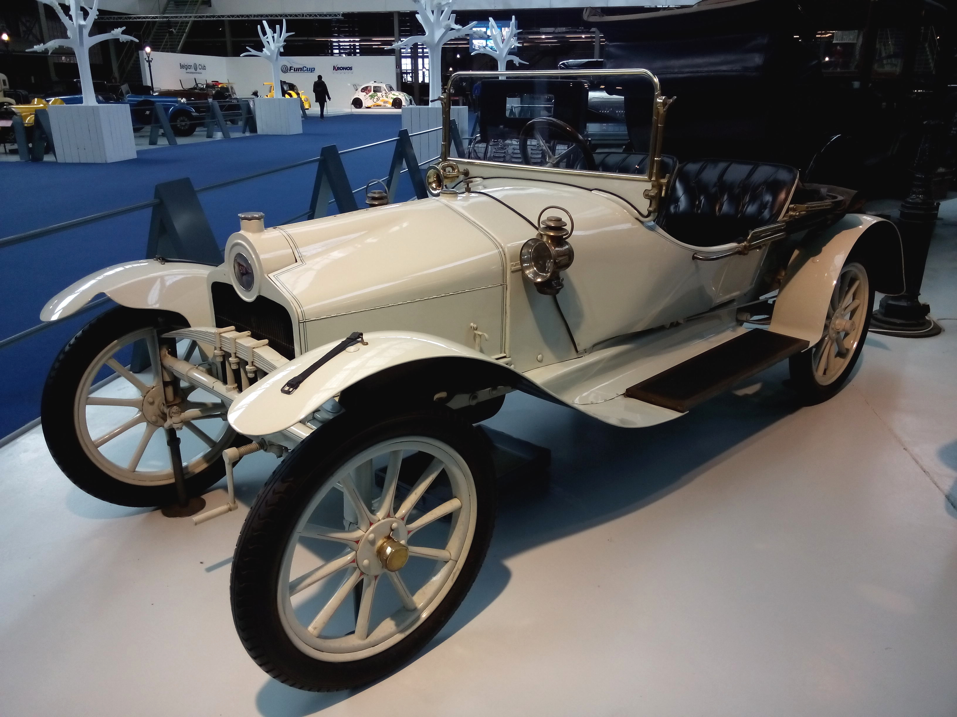 This make was unique for its transverse spring, which allowed the wheels to operate with relative independence. The car came with all possible accessories: headlamps, windscreen and hood.